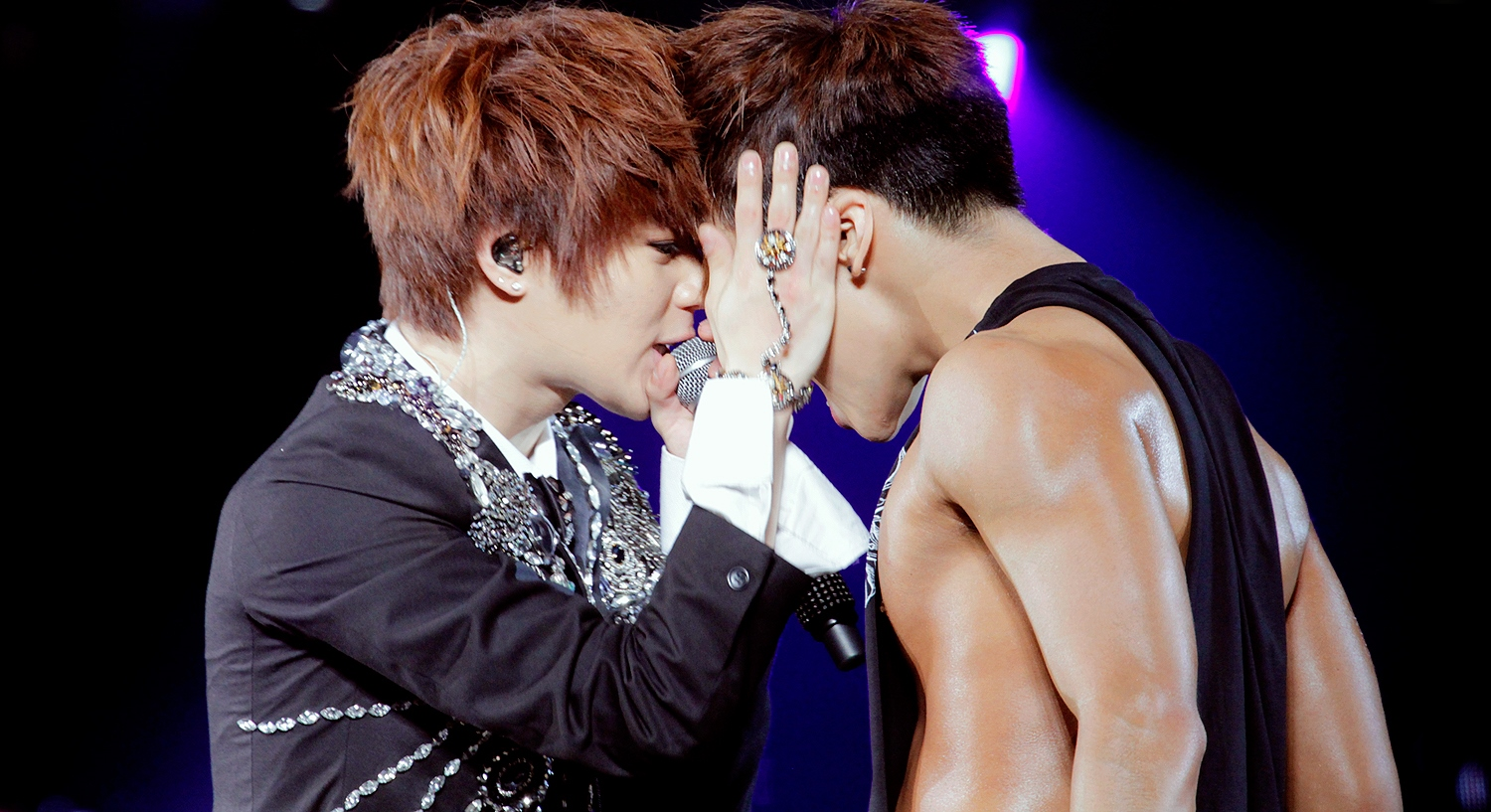 Taemin and Jonghyun at the SHINee World Concert II in Taiwan on September 16, 2012.